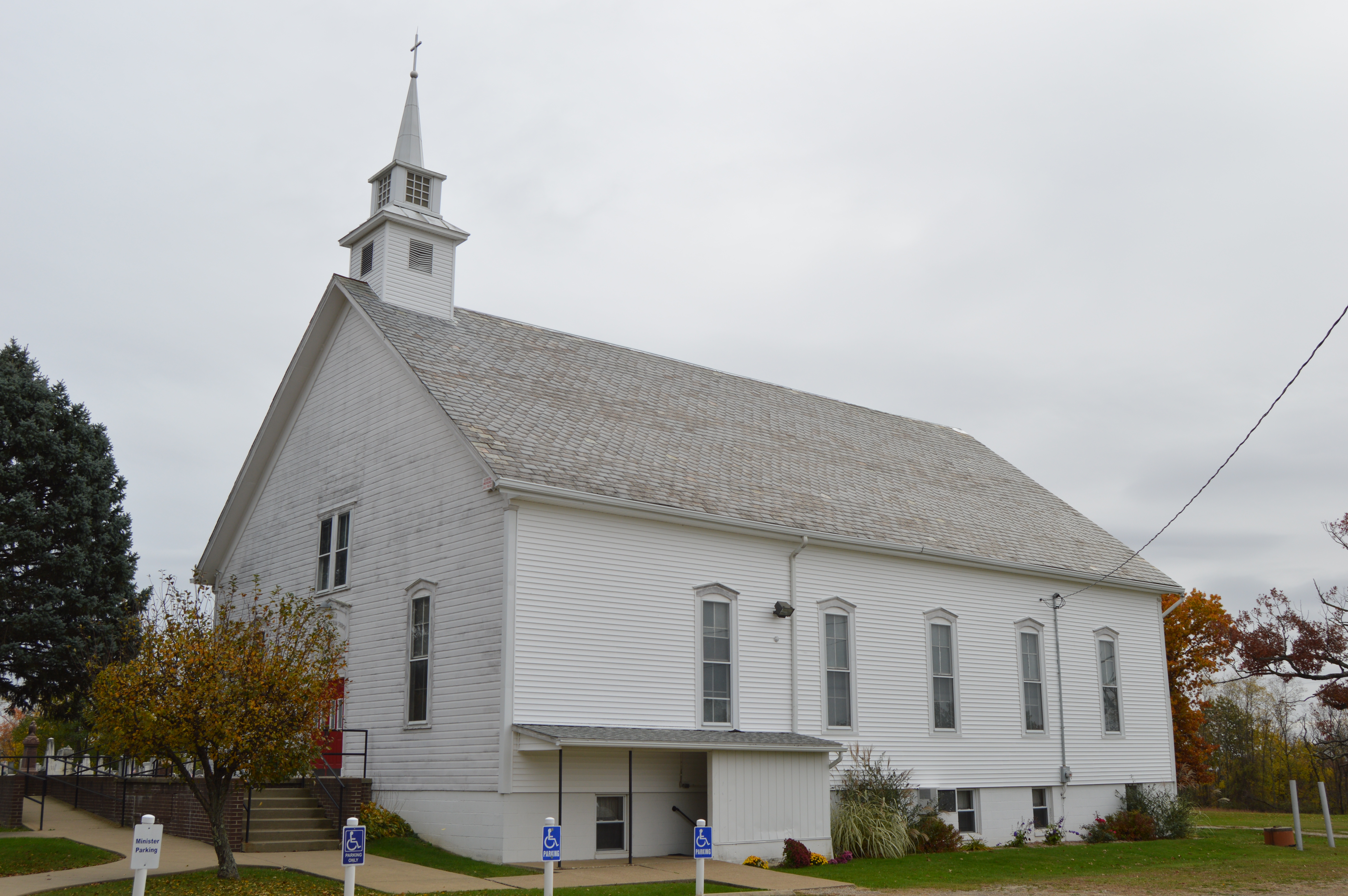 Front and western side of the Bloomfield Presbyterian Church, located on State Route 209 north of New Concord in Highland Township, Muskingum County, Ohio, United States.